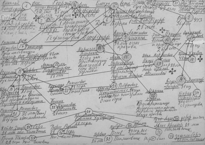 Relationships between the characters in "Das weiße Pulver" drawn by Jurij A. Treguboff during story development